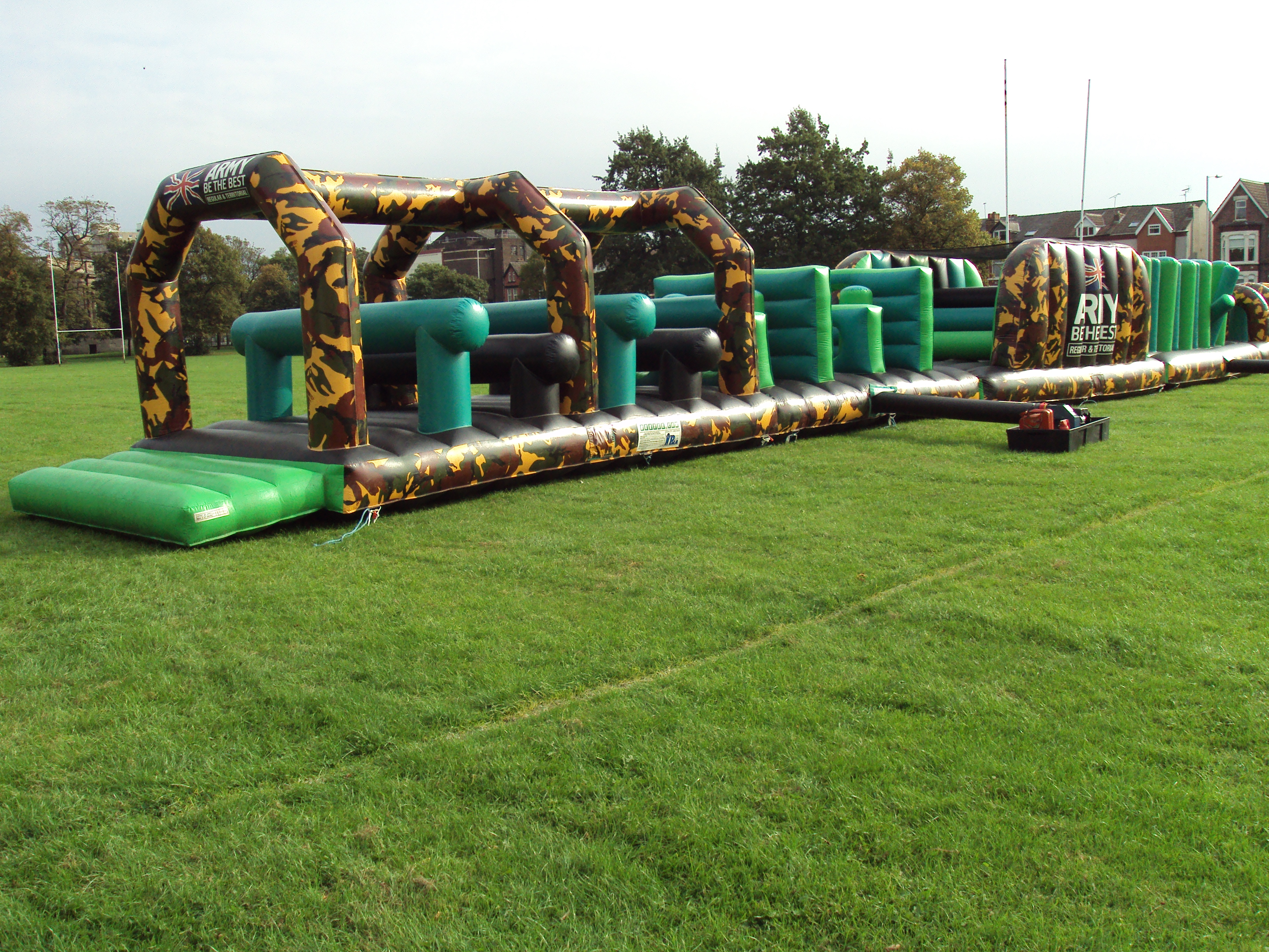 Army inflatable children's assault course at the 2009 Birkenhead Park Festival of Transport, Birkenhead, Merseyside, England.